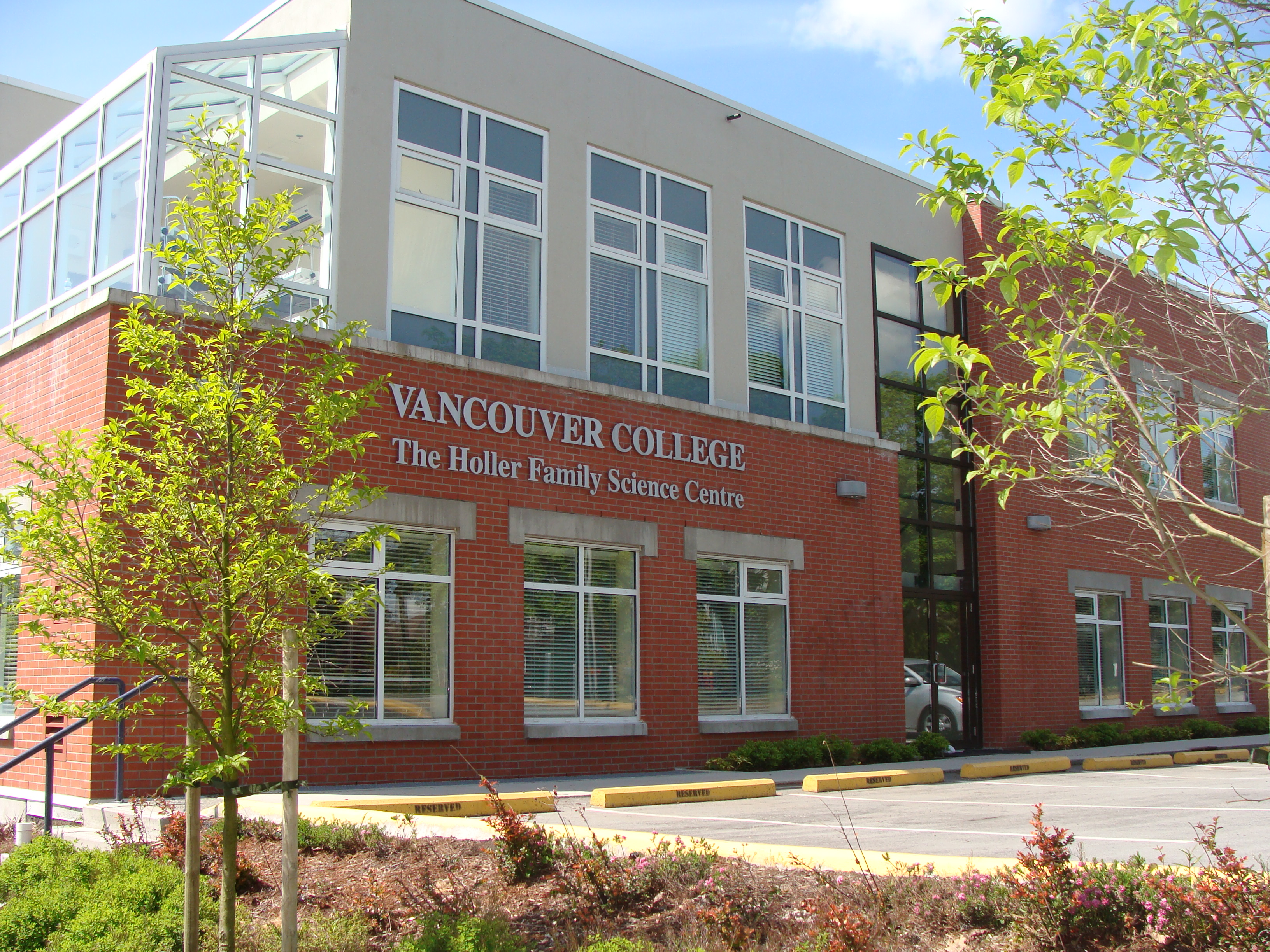 VC Holler Family Science Center